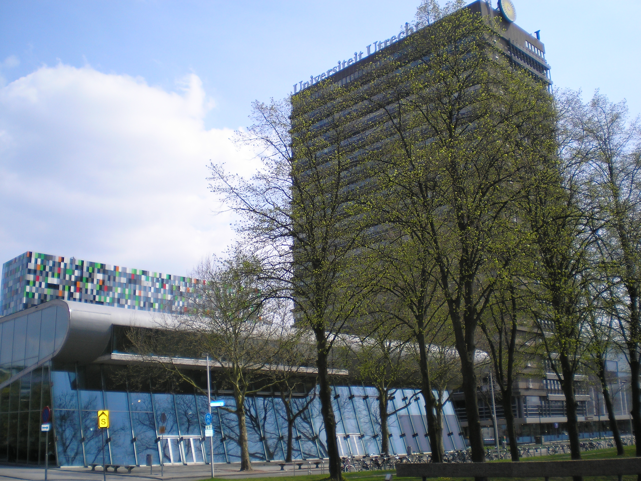 Utrecht University in the Leuvenlaan 19 in Utrecht in the Netherlands